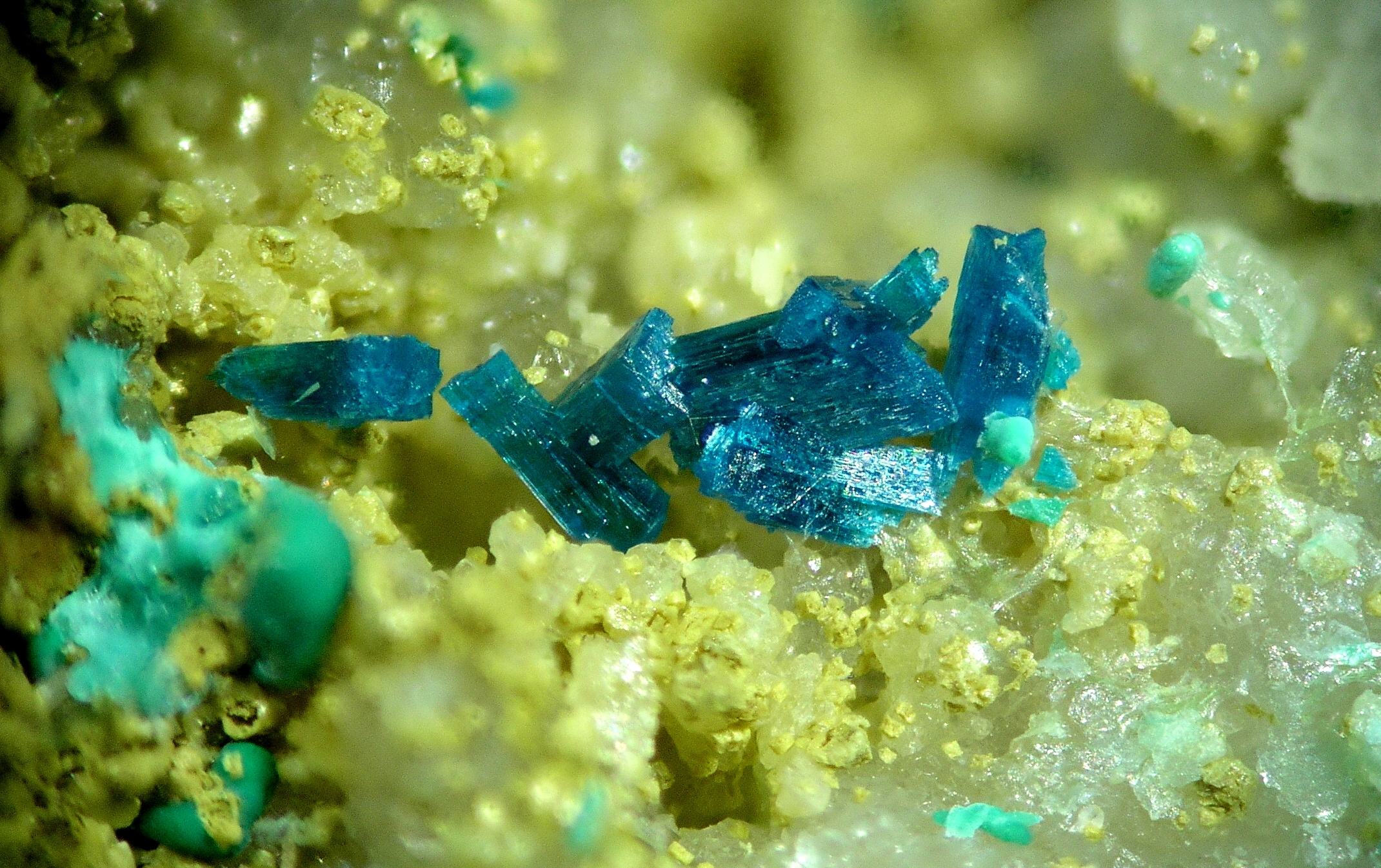 Langite (image width: 5 mm) Locality: mining waste tip of Richtarova near Stare Hory, Špania Dolina, 10 km northwords of Banská Bystrica, Slovakia